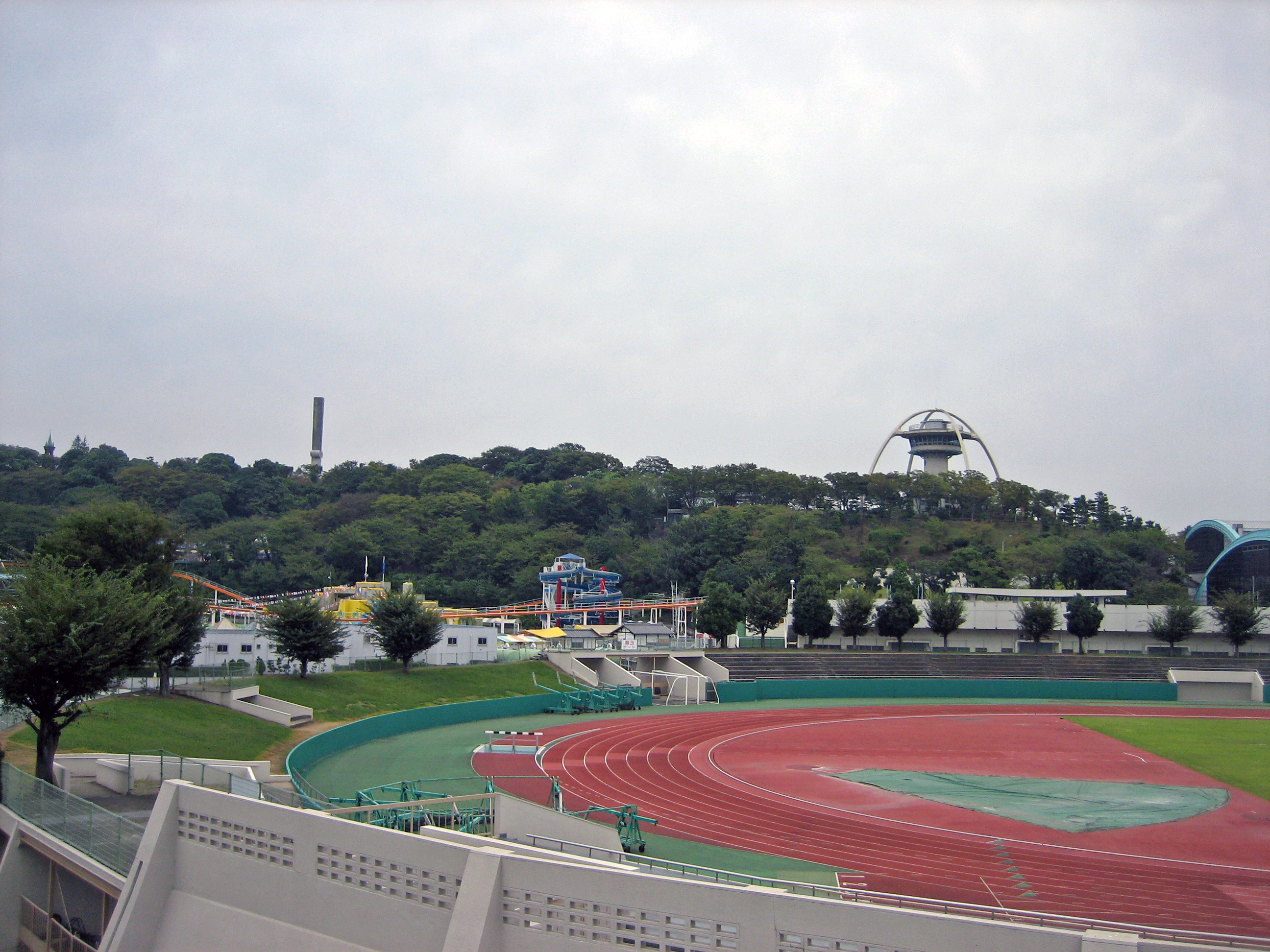 Mount Tegara (Tegara-yama) in Himeji City, Hyogo Prefecture, Japan. Athletics field Himeji Tegarayama Amusement Park can be seen in the foreground